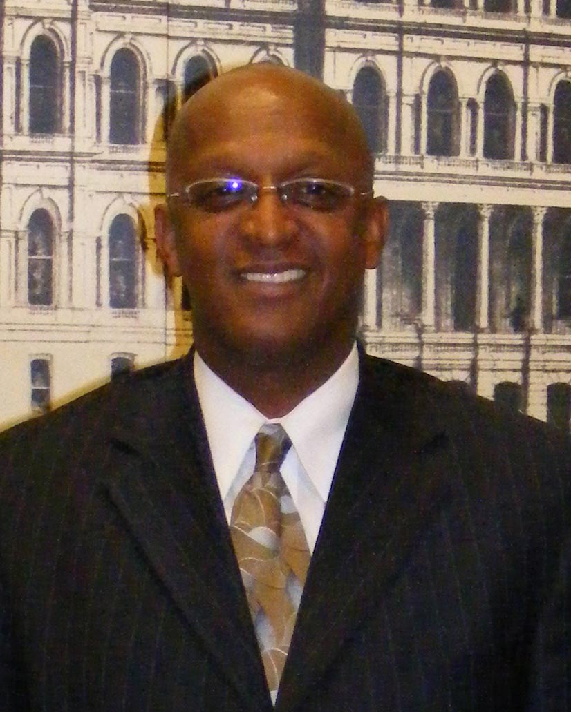 I took this picture, 10/07